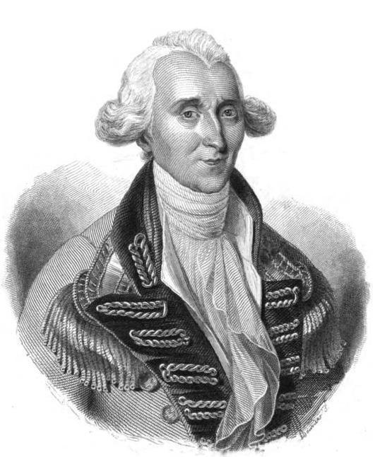 Cl. Martin